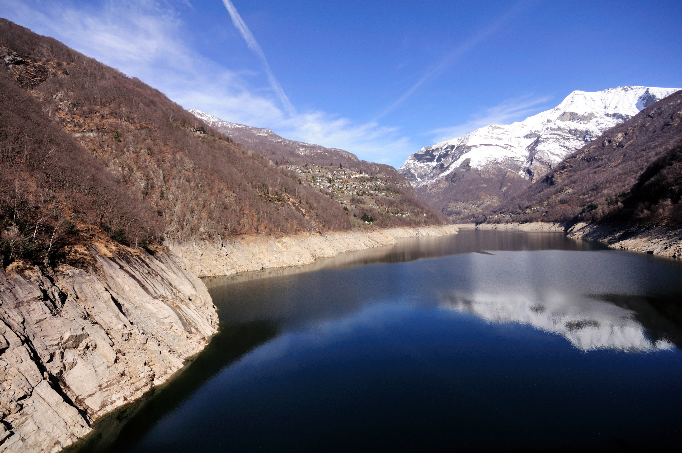 Lake of Vogorno